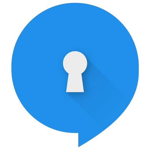 A logo of the TextSecure app. February 2015 – March 2017.